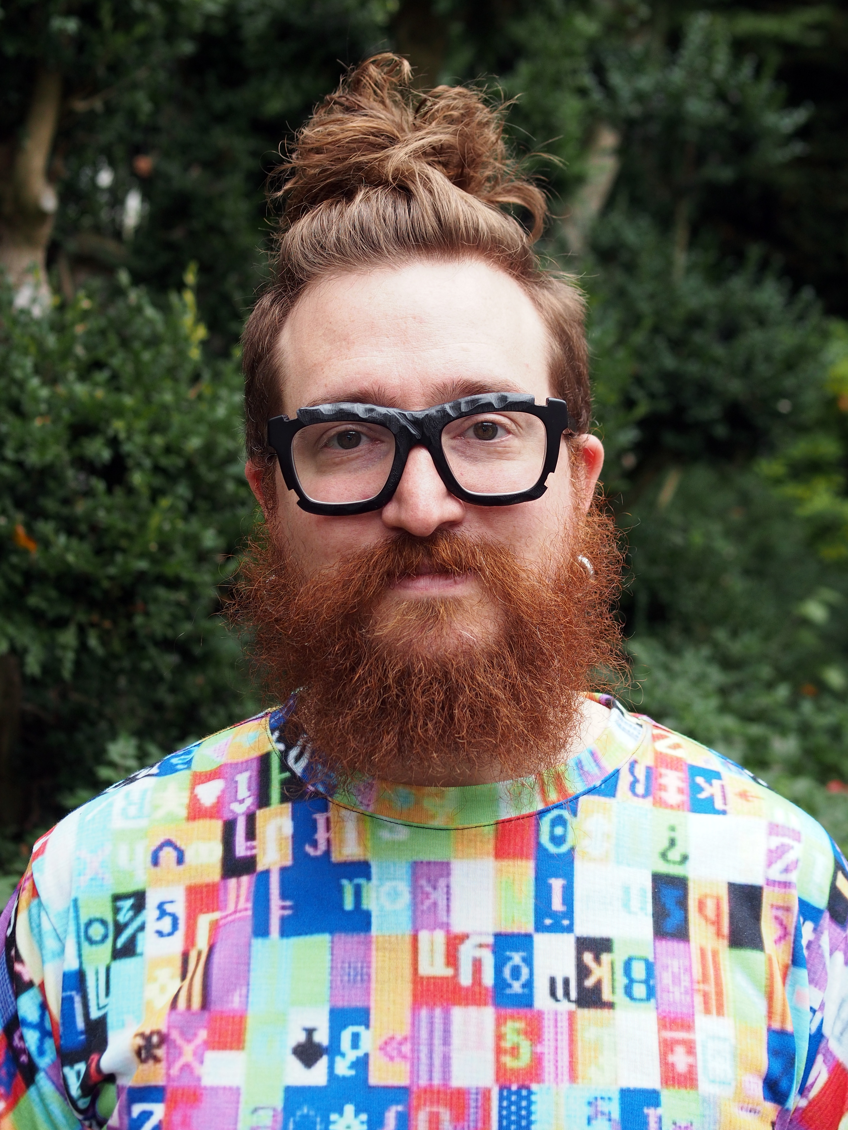 A photo of the US-american engineer Harper Reed; Berne, 2015.